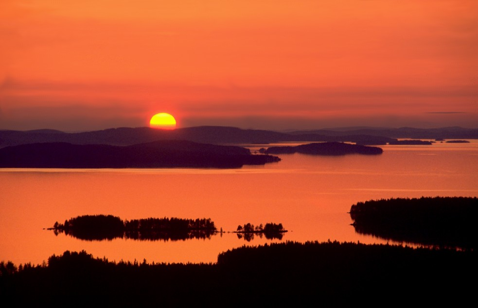 Sunset at Lake Pielinen in Eastern Finland